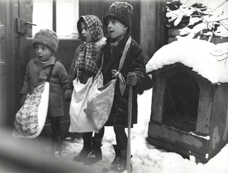 Children carolers in Bucharest